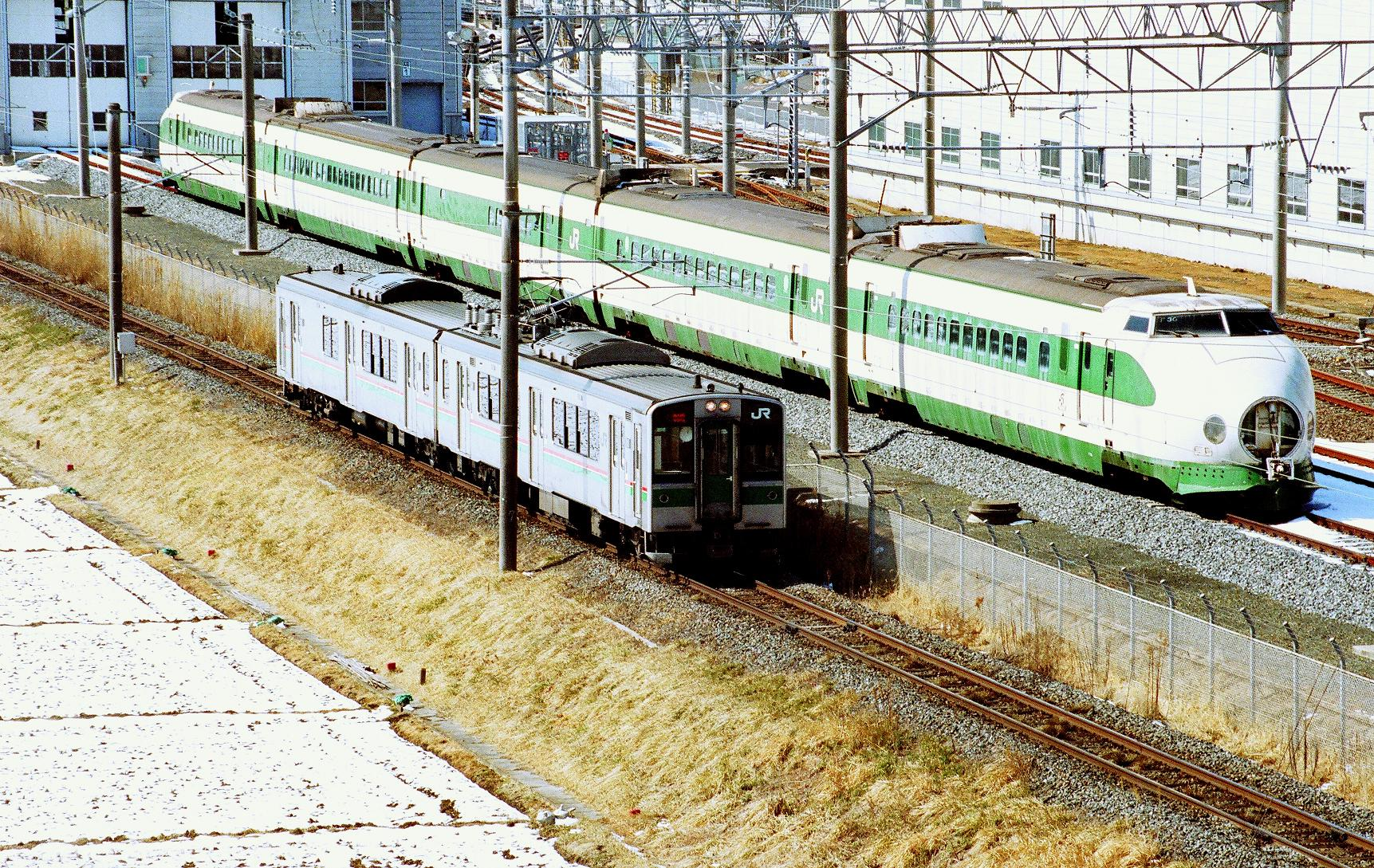 JR East 701 series EMU on the Rifu Line passing withdrawn/stored 200 series shinkansen cars formerly of set F30 at Sendai Depot